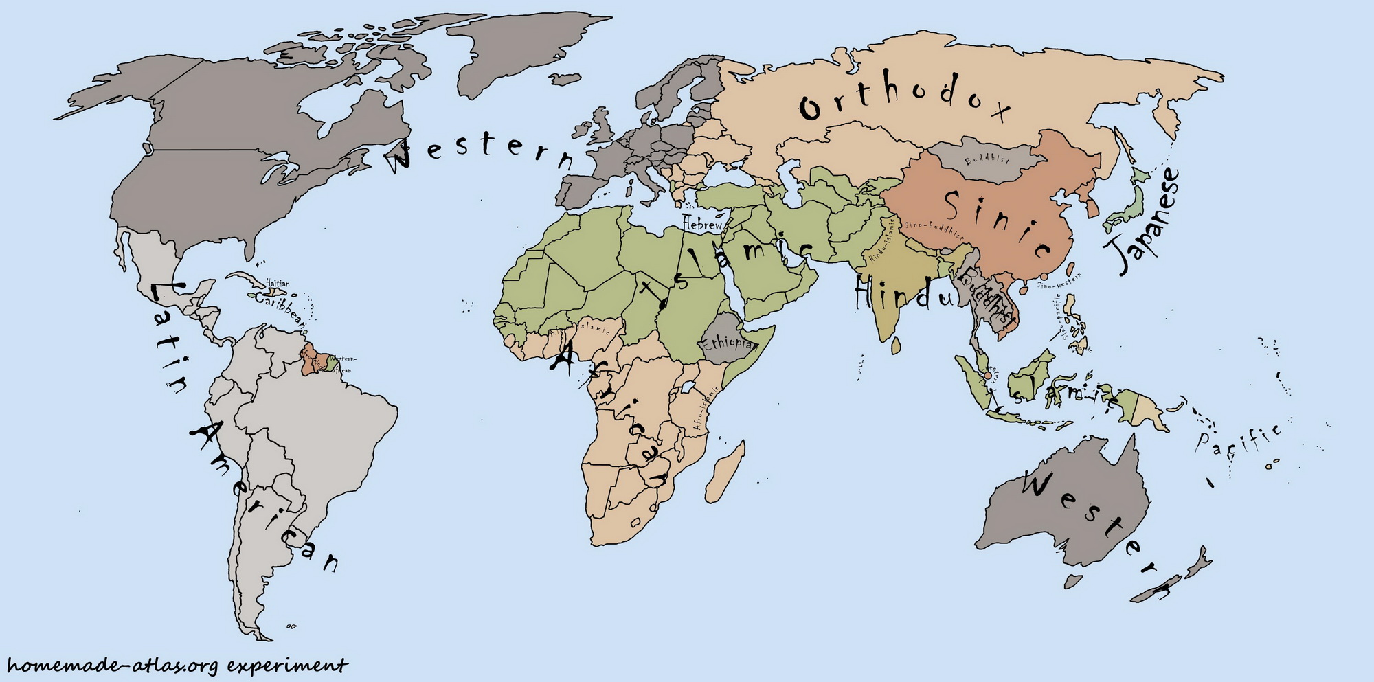 Source: Samuel P. Huntington, The Clash of Civilizations and the Remaking of World Order, Simon & Schuster, 1996. Some minor or cleft civilizations have been added by the author